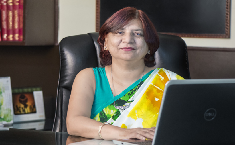 photo of VC